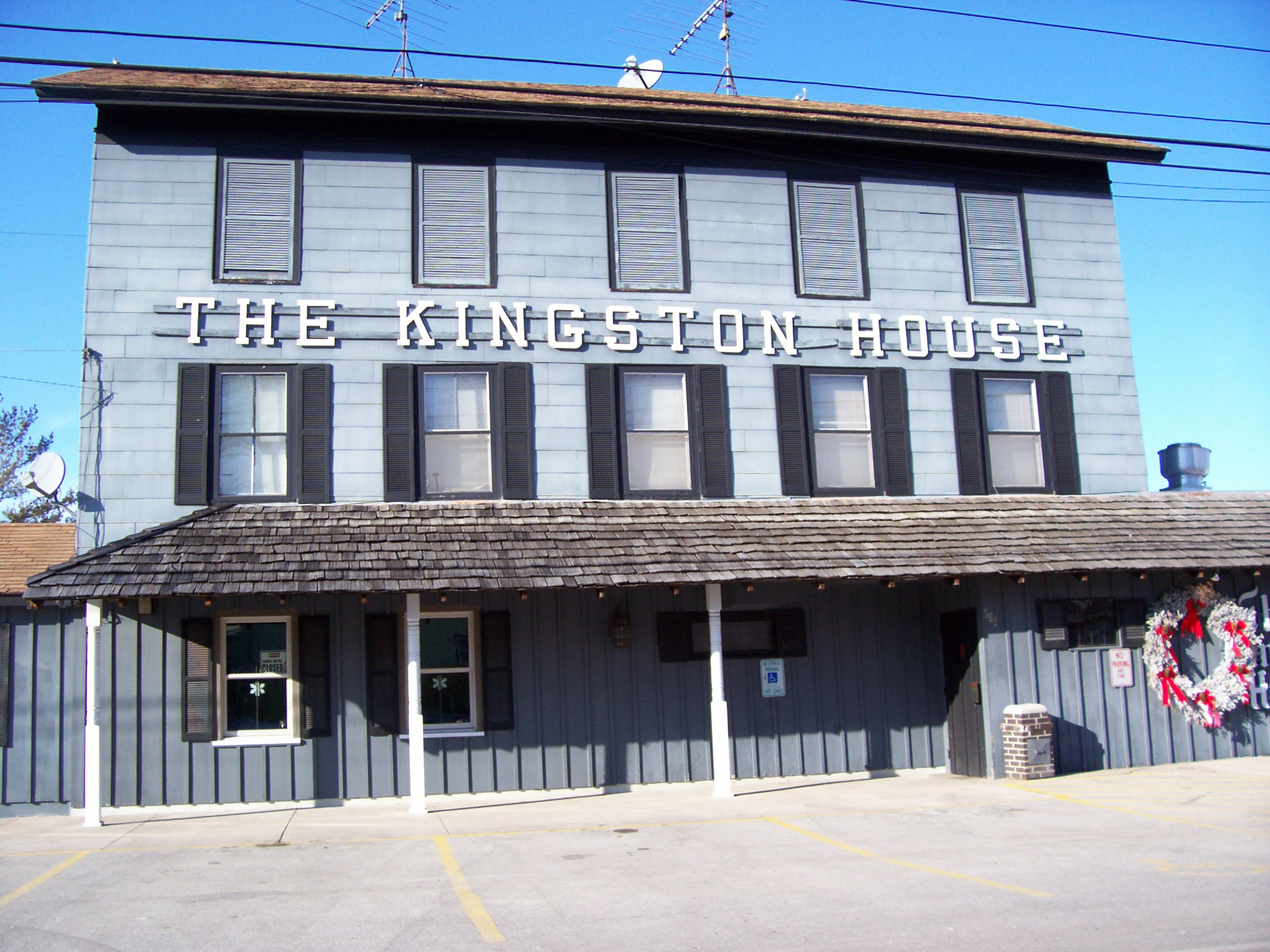 The Kingston House in Kingston, Wisconsin, USA while travelling on Wisconsin Highway 44. Taken March 11, 2007 by myself.